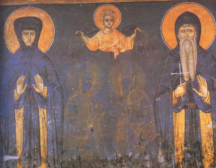 Queen Hélène d'Anjou and her son king Milutin, a fresco from Gracanica monastery.